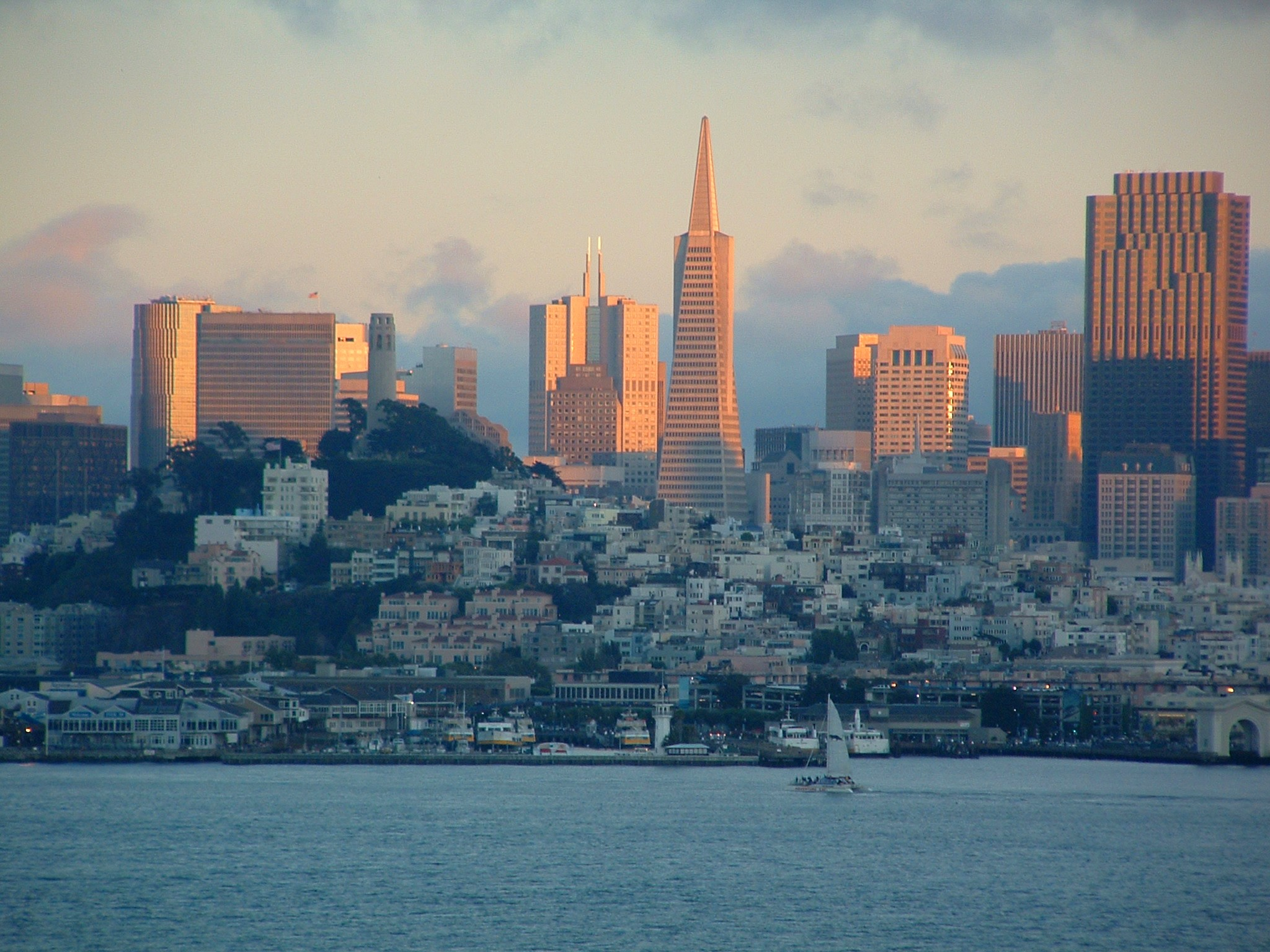 Picture of San Francisco at Sunset.